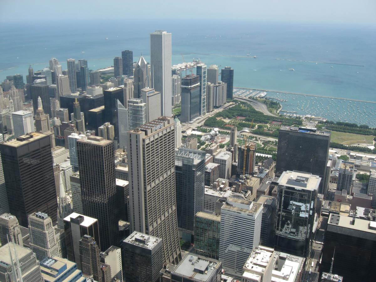 View of lake Michigan from Willis Tower